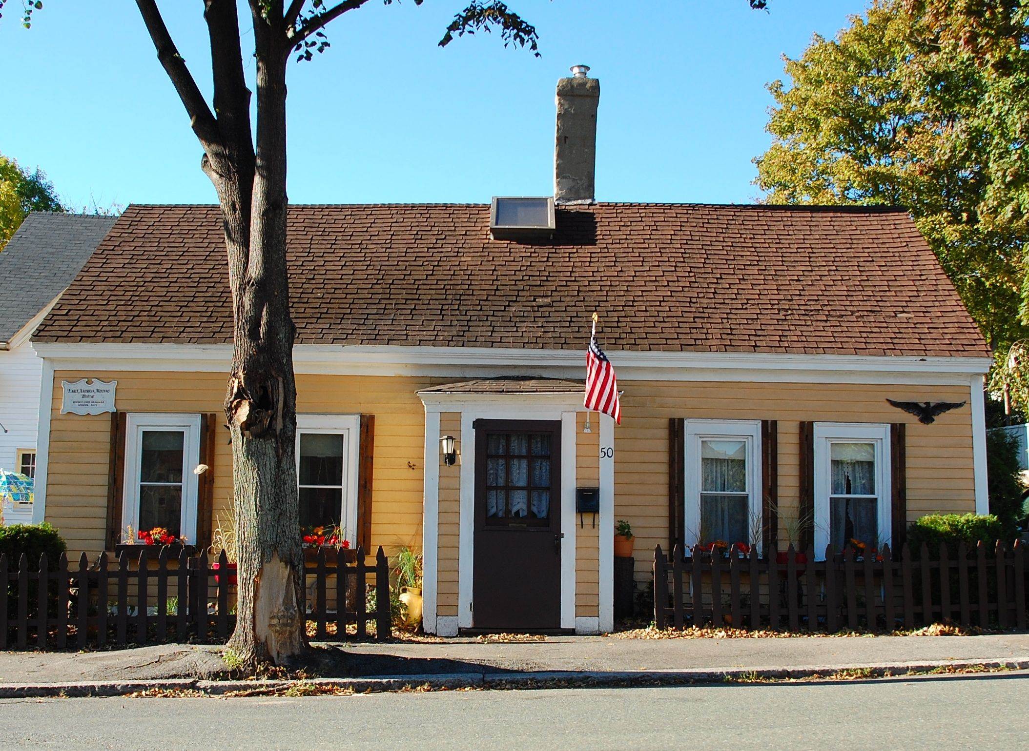 The Beverly Grammar School, est. 1716, now on the National Register of Historic Places. Today it looks more like a private residence.